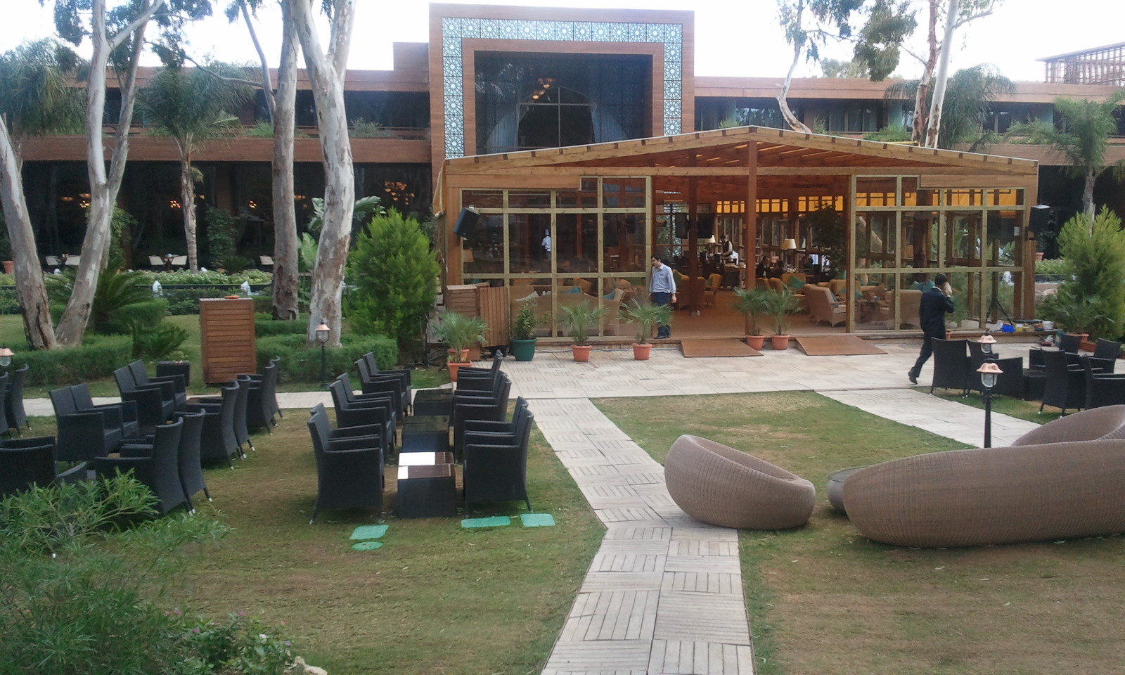 Rixos Al Nasr